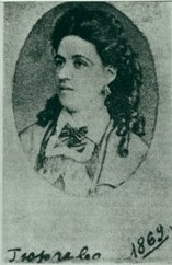 Bulgarian actress Todorka Bakardzhieva (1854-1934)